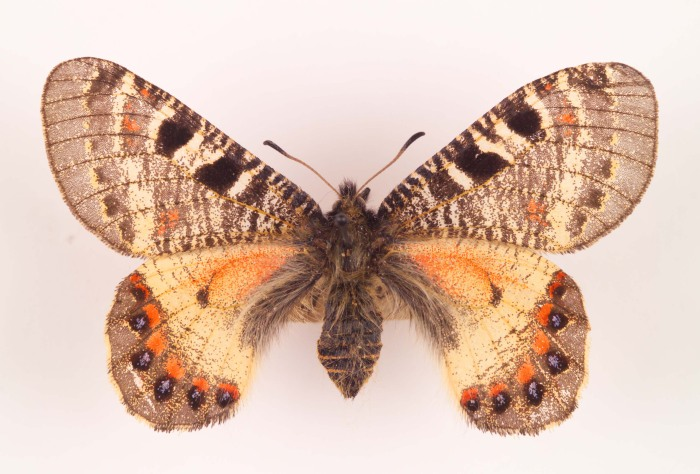 False Apollo, Archon apollinus from Turkey, specimen from Ulster Museum